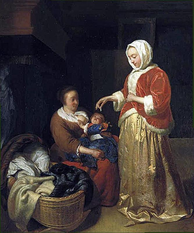 Lady playing with a child on the lap of its nanny